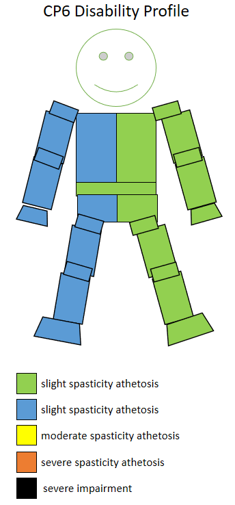 This image descriptions the spasticity athetosis level of a CP6 CP-ISRA classified sports person with cerebral palsy. It was created using information from .